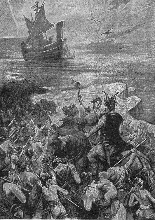 Danes embarking for the invasion of England under Cnut the Great in 1016.